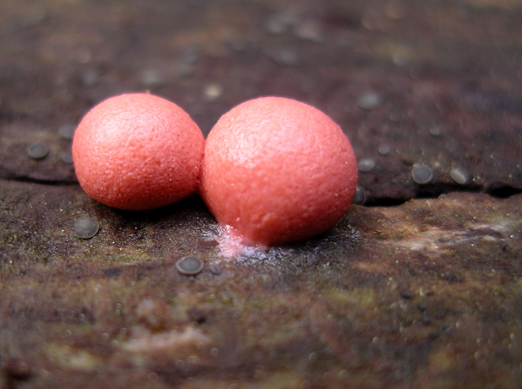 Close-up of two immature aethalia of Lycogala epidendrum growing on old solid timber seat, Anglesey May 2006